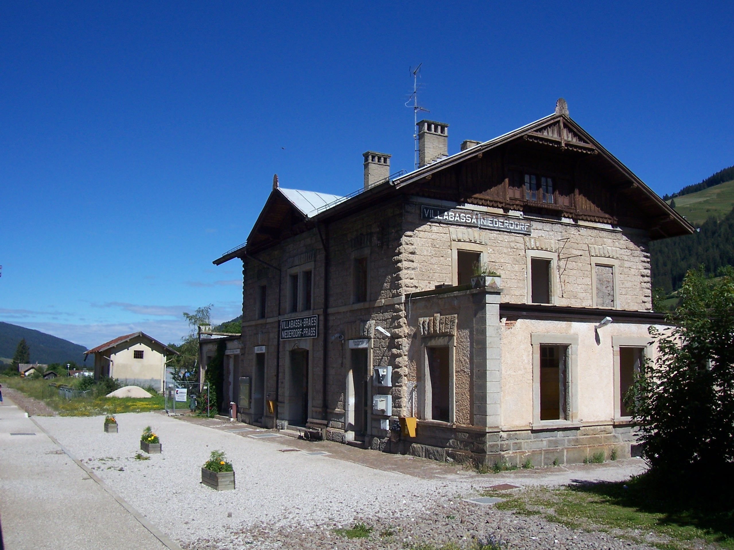 Villabassa/Niederdorf-Braies/Prags train station, Italy.